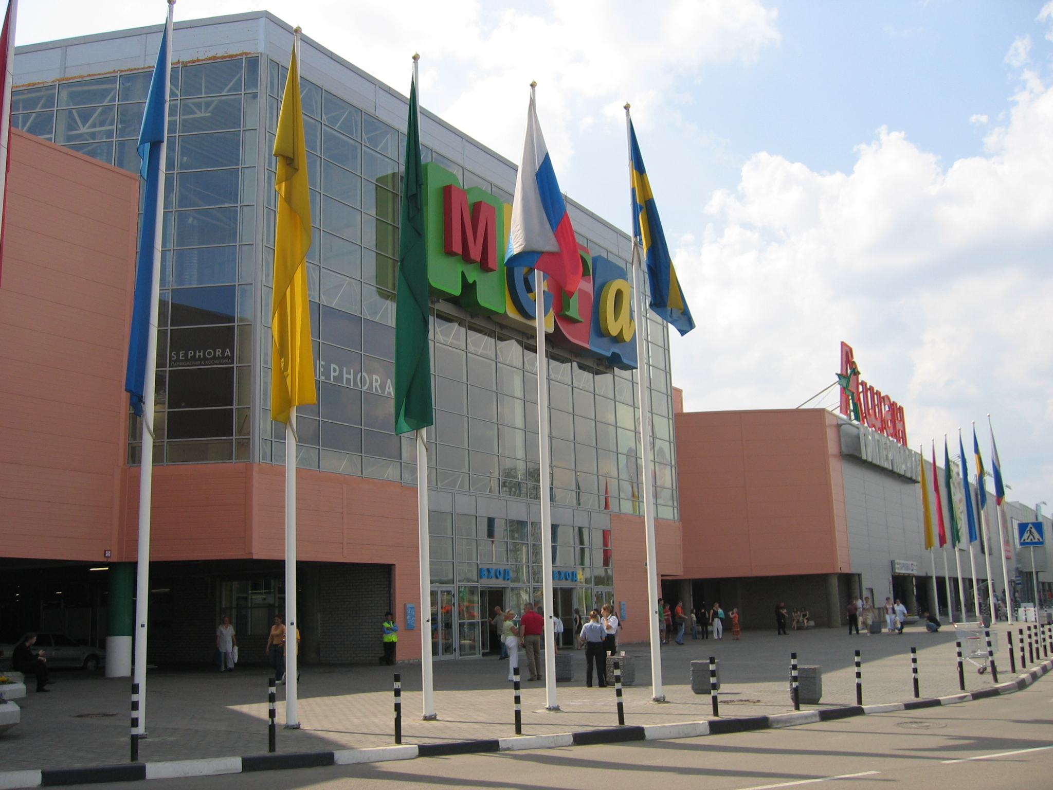 MEGA-mall Belaya Dacha near Moscow